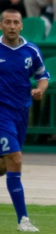 Igor Ushakov in action for FC Dynamo Vologda